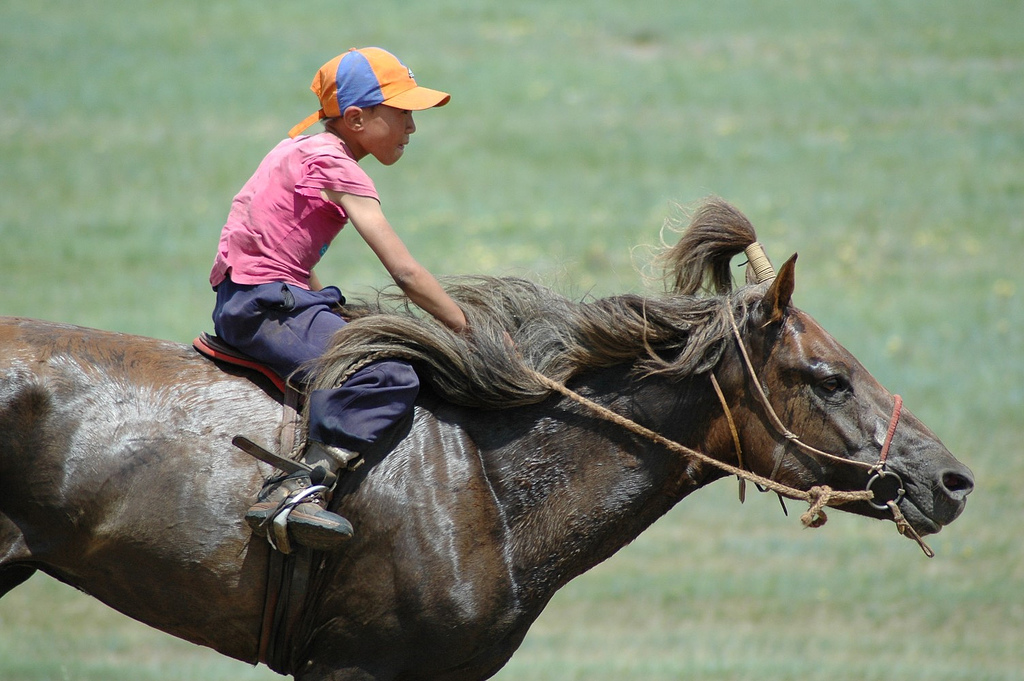 Horse race Naadam time